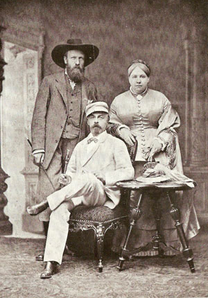 Karl Hillebrand, Hans von Bülow and Jessie Laussot in Florence